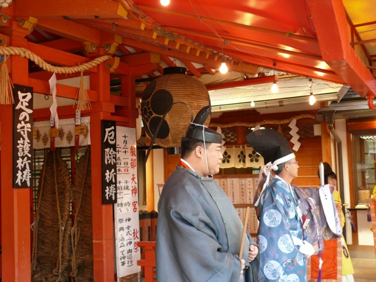 Kannushi, at Hattori-tenjingū, Osaka